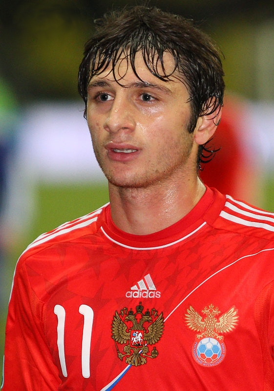 Russian football player Alan Dzagoev during match against Andorra